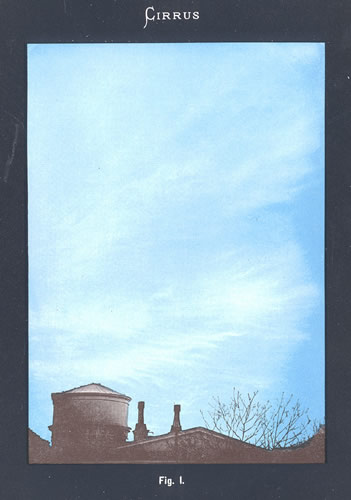 International Cloud Atlas 1896, figure 1: Cirrus